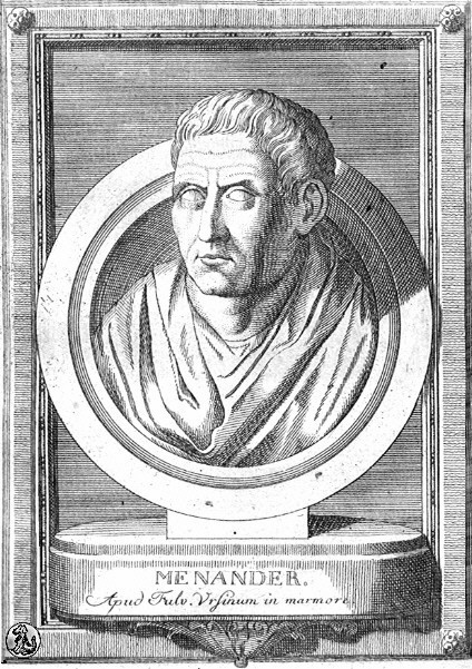 Portrait of greek poet and Epicurean philosopher Menandros